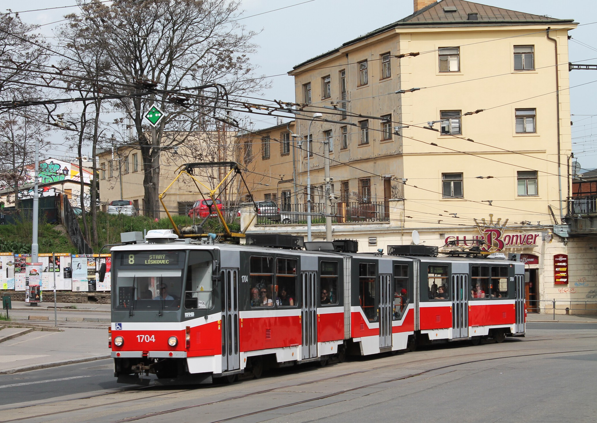 Tatra KT8D5R.N2 tram No. 1704, Brno, Czech Republic - OpenStreetMap(Info)